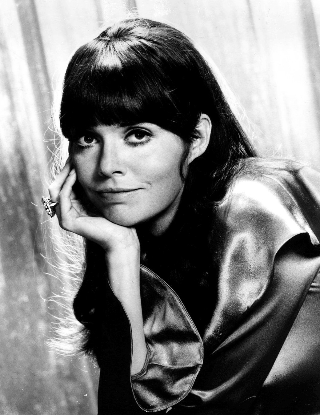 Photo of Barbara Feldon.